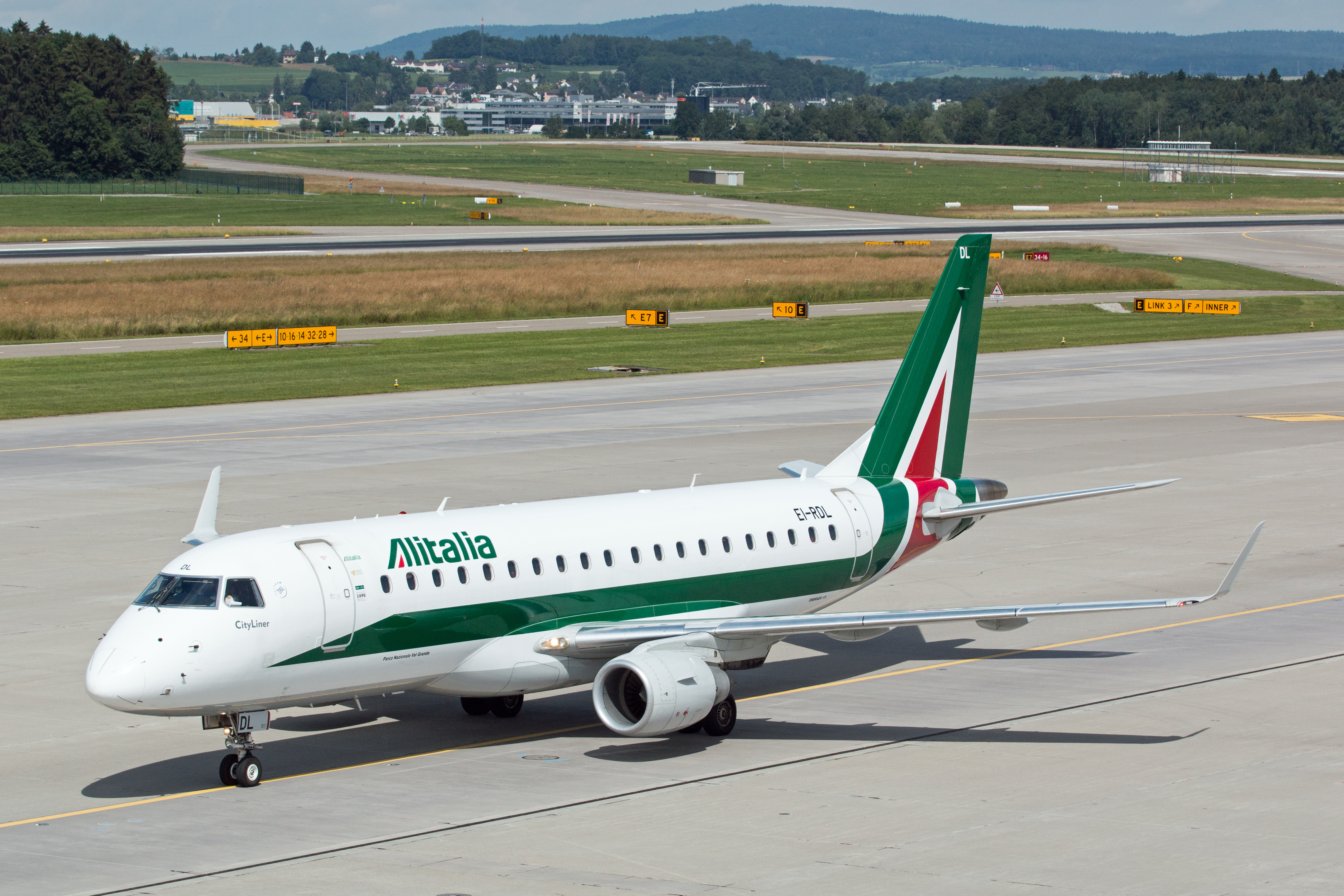 Embraer 175 First flight date 2012